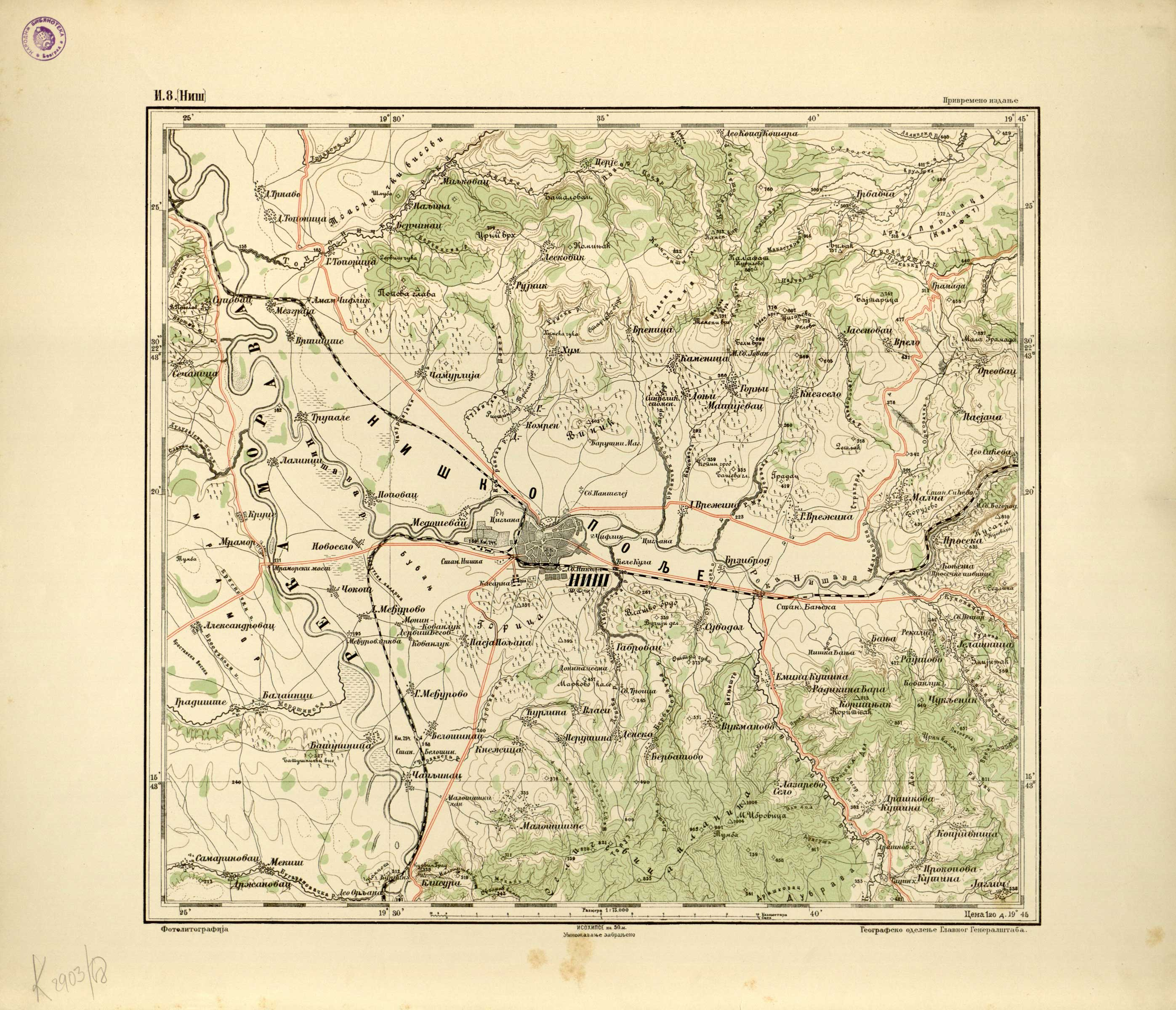 Digital copies of the Đeneralštabna map of Serbia. The map is printed in Belgrade, the 1894th , in 94 sections, with a topographic key and in scale 1:75.000. This is the first special military map of Serbia was published in the country.